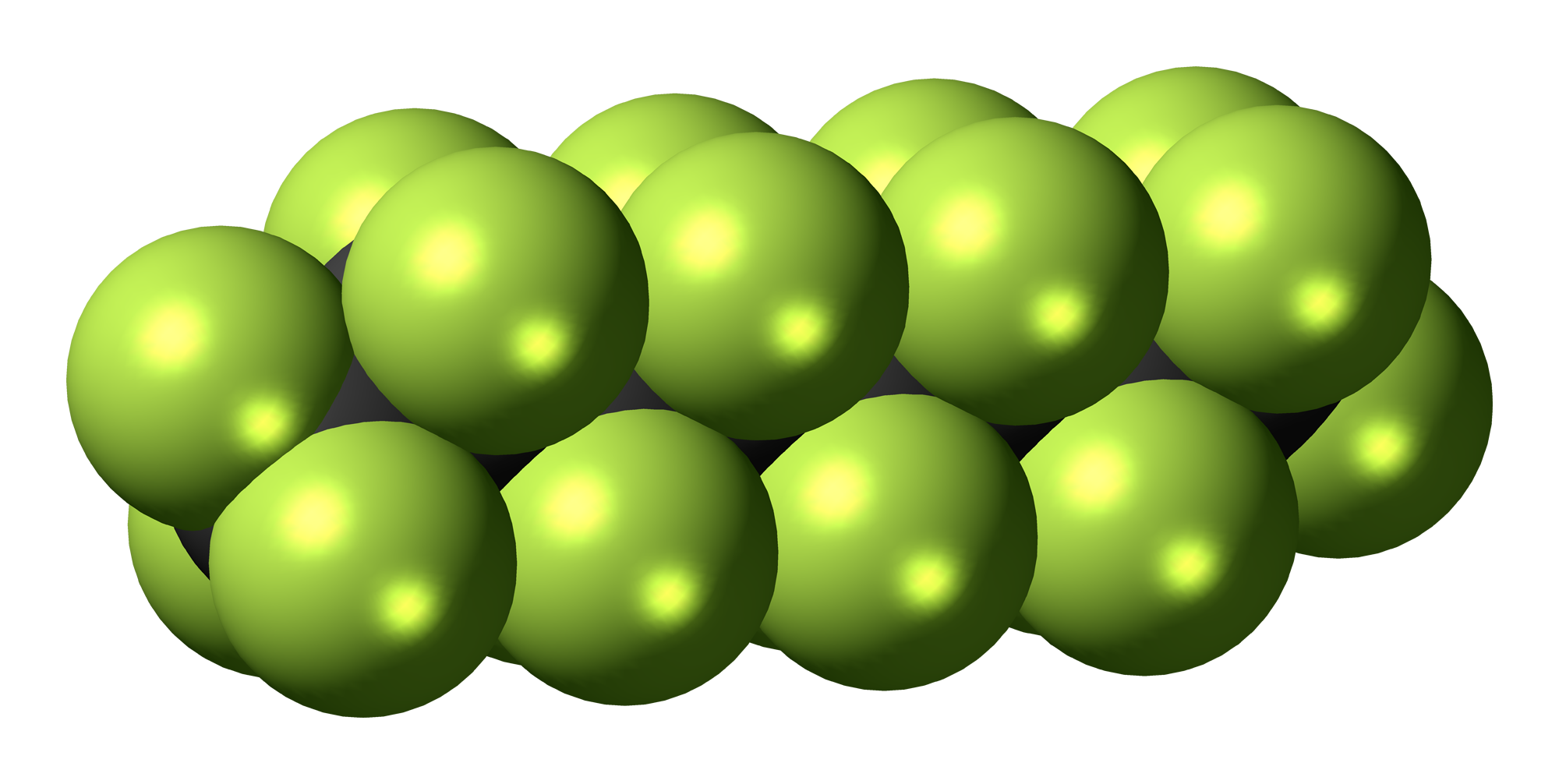 Space-filling model of the perfluorooctane molecule, a fluorocarbon related to octane. Color code: Carbon, C: black Fluorine, F: yellow-green